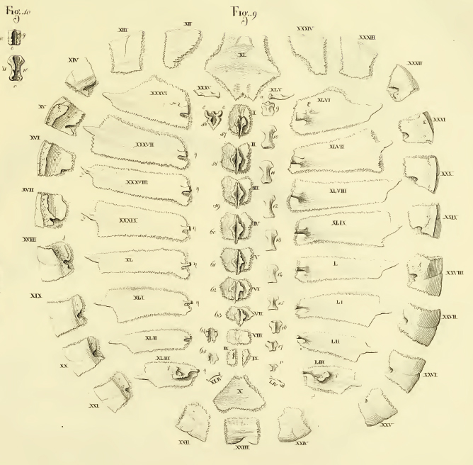 Fig 9 from Bojanus (1819) Exploded view of turtle carapace, Emys orbicularis Legend: (i) Neural 1, (ii) Neural 2, (iii) Neural 3, (iv) Neural 4, (v) Neural 5, (vi) Neural 6, (vii) Neural 7, (viii) Neural 8, (ix) extra neural, divided, (x) suprapygal, (xi) nuchal, (xii) right peripheral 1, (xiii) right peripheral 2, (xiv) right peripheral 3, (xv) right peripheral 4, (xvi) right peripheral 5, (xvii) right peripheral 6, (xviii) right peripheral 7, (xix) right peripheral 8, (xx) right peripheral 9, (xxi) right peripheral 10, (xxii) right peripheral 11, (xxiii) pygal, (xxiv) left peripheral 11, (xxv) left peripheral 10, (xxvi) left peripheral 9, (xxvii) left peripheral 8, (xxviii) left peripheral 7, (xxix) left peripheral 6, xxx left peripheral 5, xxxi left peripheral 4, (xxxii) left peripheral 3, (xxxiii) left peripheral 2, (xxxiv) left peripheral 1, (xxxv) right 1st rib, (xxxvi) right pleural 1, (xxxvii) right pleural 2, (xxxviii) right pleural 3, (xxxix) right pleural 4, (xl) right pleural 5, (xli) right pleural 6, (xlii) right pleural 7, (xliii) right pleural 8, (xliv) right 10th rib, (xlv) left 1st rib, (xlvi) left pleural 1, (xlvii) left pleural 2, (xlviii) left pleural 3, (xlix) left pleural 4, (l) left pleural 5, (li) left pleural 6, (lii) left pleural 7, (liii) left pleural 8, (liv) left 10th rib, (9-18) centrums.